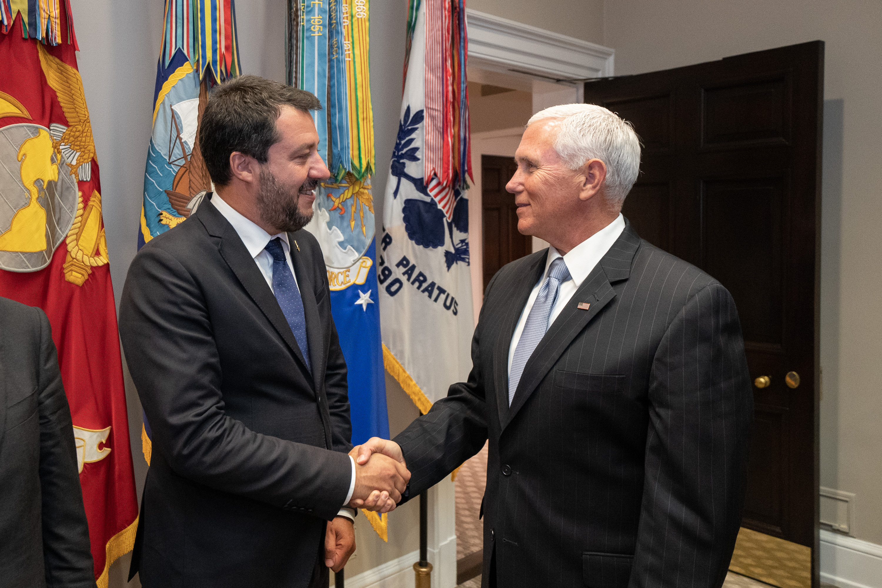 Vice President Mike Pence meets with Deputy Prime Minister Matteo Salvini of Italy in the Roosevelt Room of the White House Monday June 17, 2019 (Official White House Photo by D. Myles Cullen)